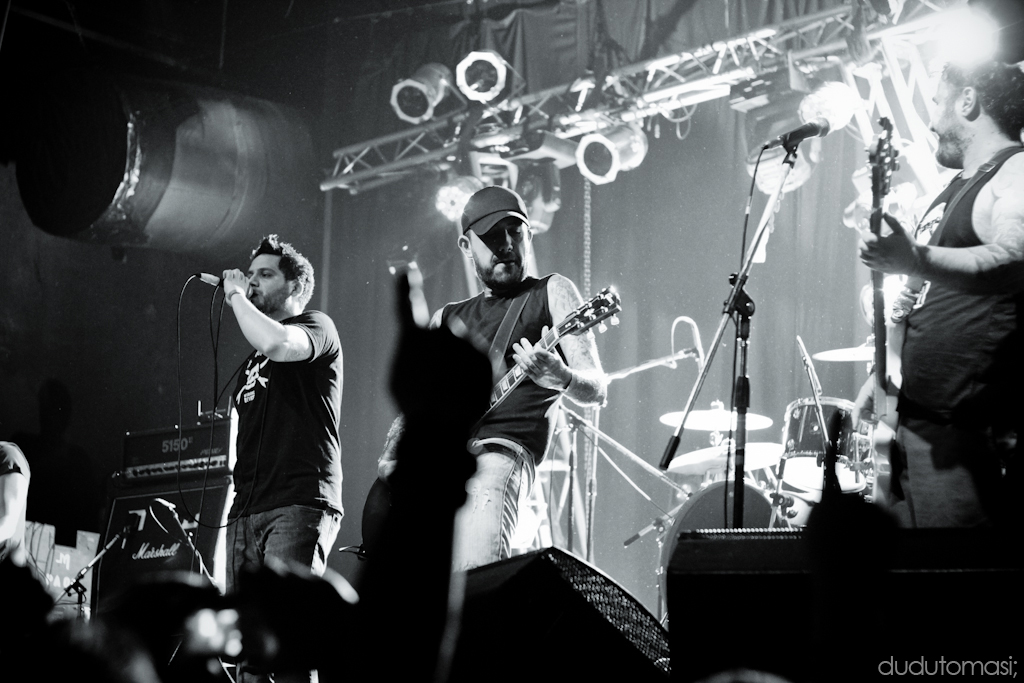 Shaila